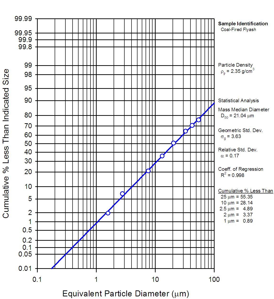 Log-Normal Distribution results graph. Cumulative percent less than indicated size as a function of particle size.